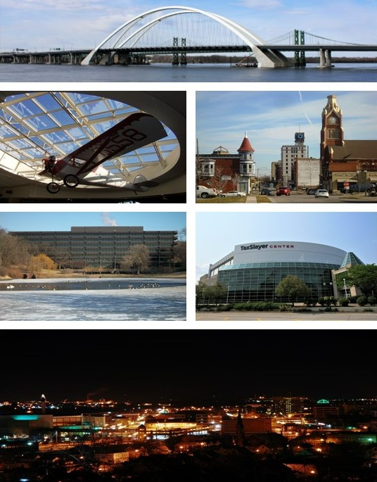 A montage of pictures of the city of Moline, Illinois.